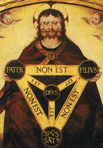 A representation of the Christian Trinity, as a three faced head, sometimes used in Renaissance iconography (but disavowed by the Catholic church in recent centuries), accompanied by a Shield of the Trinity diagram. From Cistercian Monastery of Tulebras, Navarra, Spain